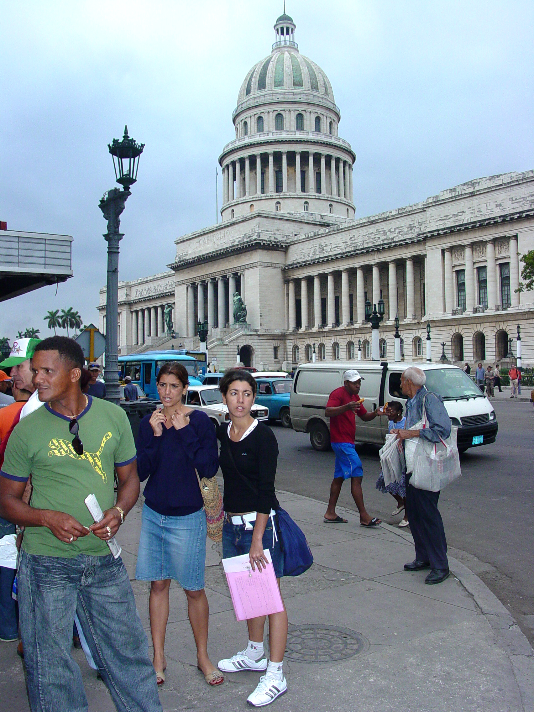 Downtown scene with Capitolio building, Centro Habana, Havana, Cuba. December 2006.